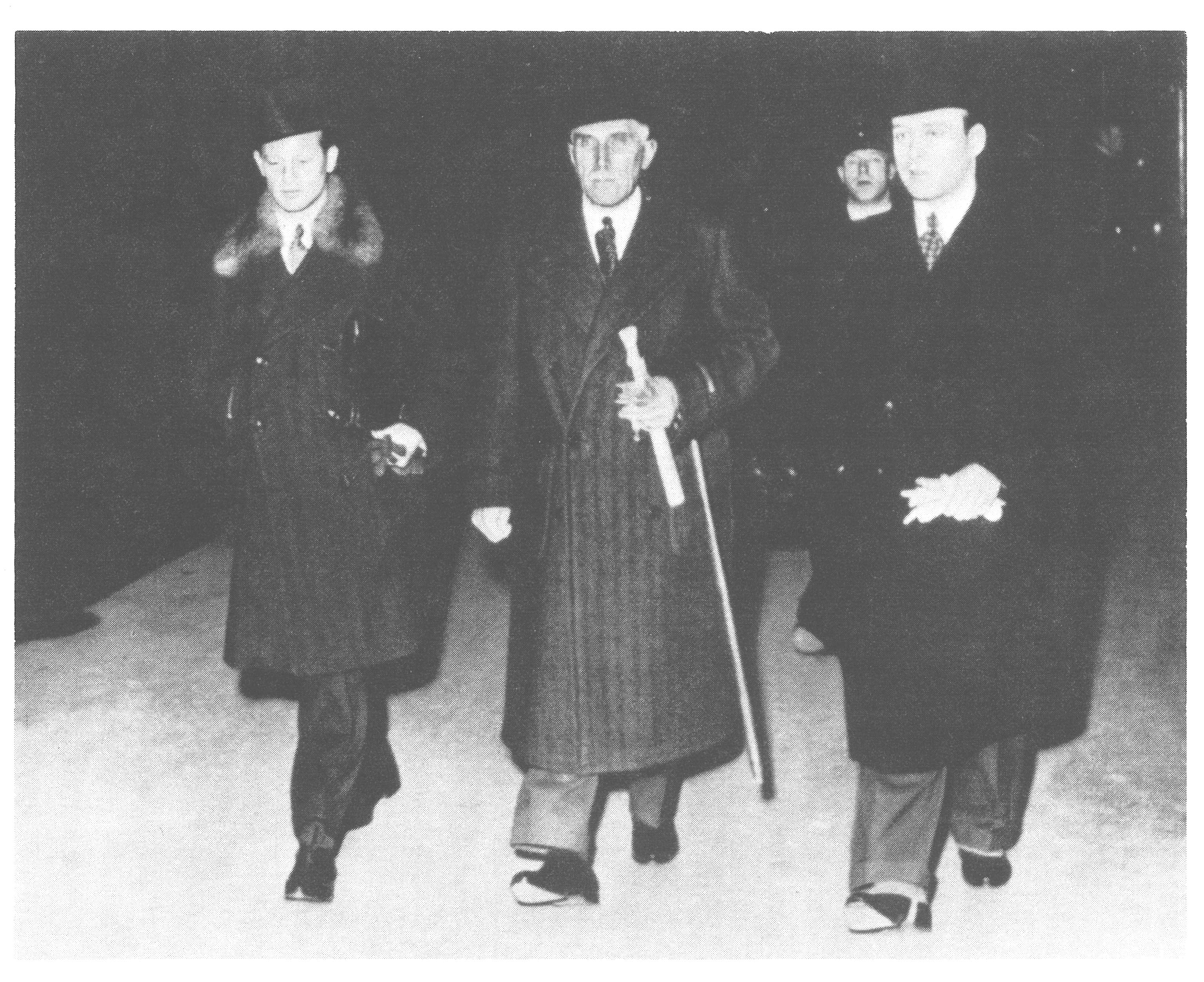 German Ambassador to Austria Franz von Papen on his way to Berchtesgaden. Picture taken on February 21st 1938 at the Central Railway Station in Vienna. Left to right: Wilhelm Freiherr von Ketteler (Attaché at the German Embassy in Vienna and Papen's Chief of Staff), von Papen and Hans Graf von Kageneck (Attaché at the German Embassy in Vienna). Ketteler was murdered three weeks later in Vienna by agents of SD-Chief Reinhard Heydrich on the occasion of the German annexation of Austria.